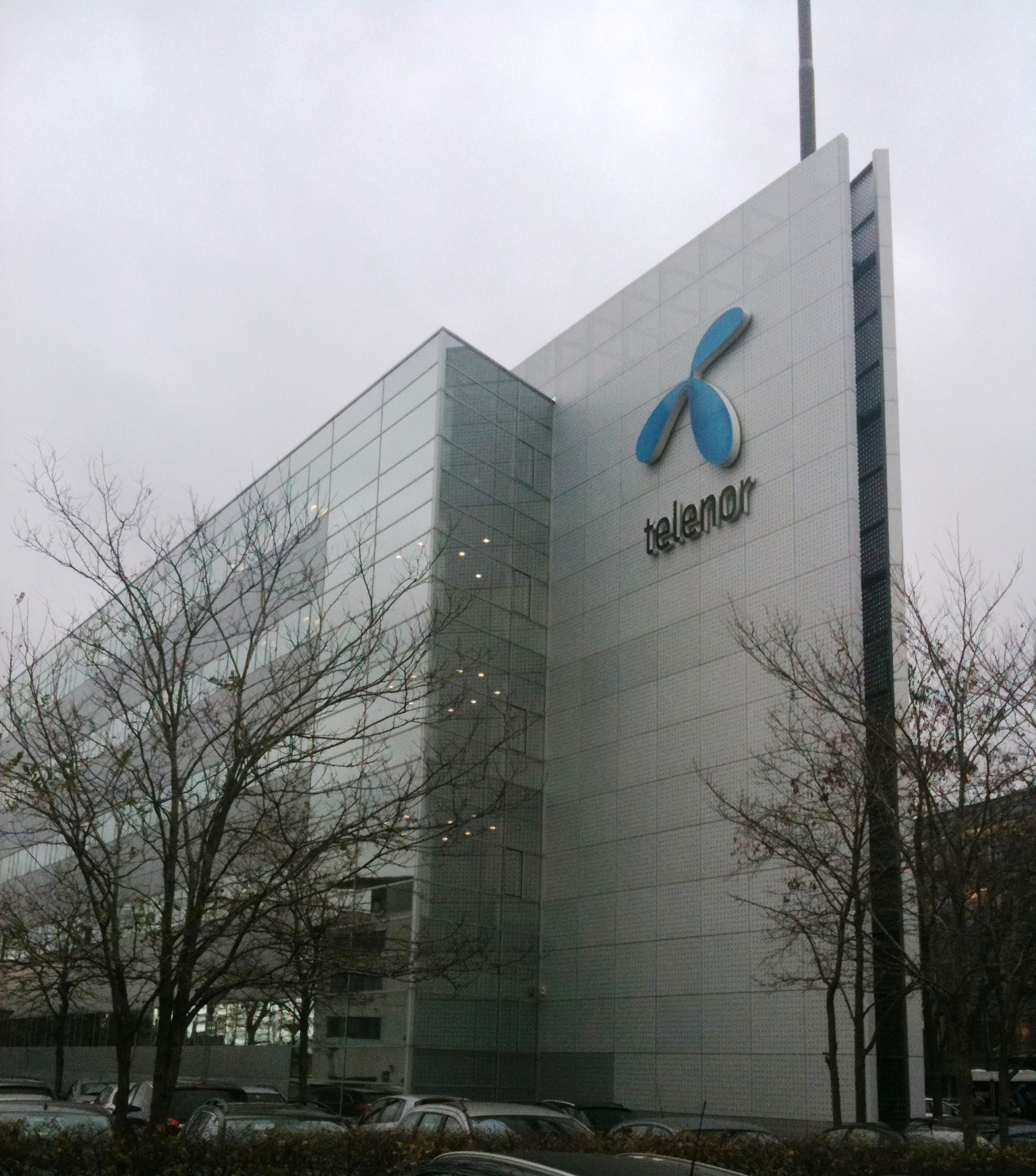 Headquarters of Telenor Denmark. frederikskaj, Copenhagen.